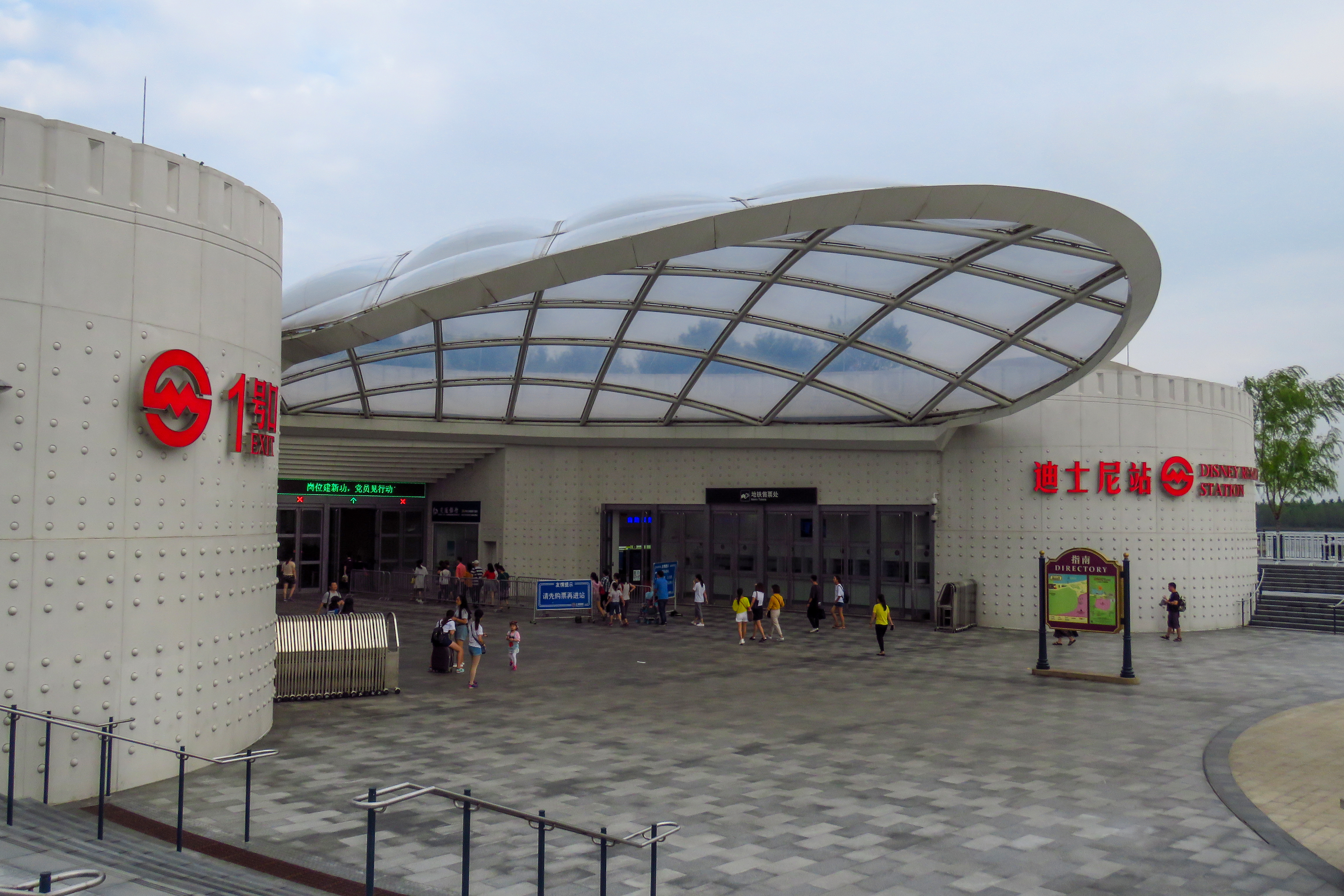 Entrance only, passengers are required to buy tickets before entering the concourse.